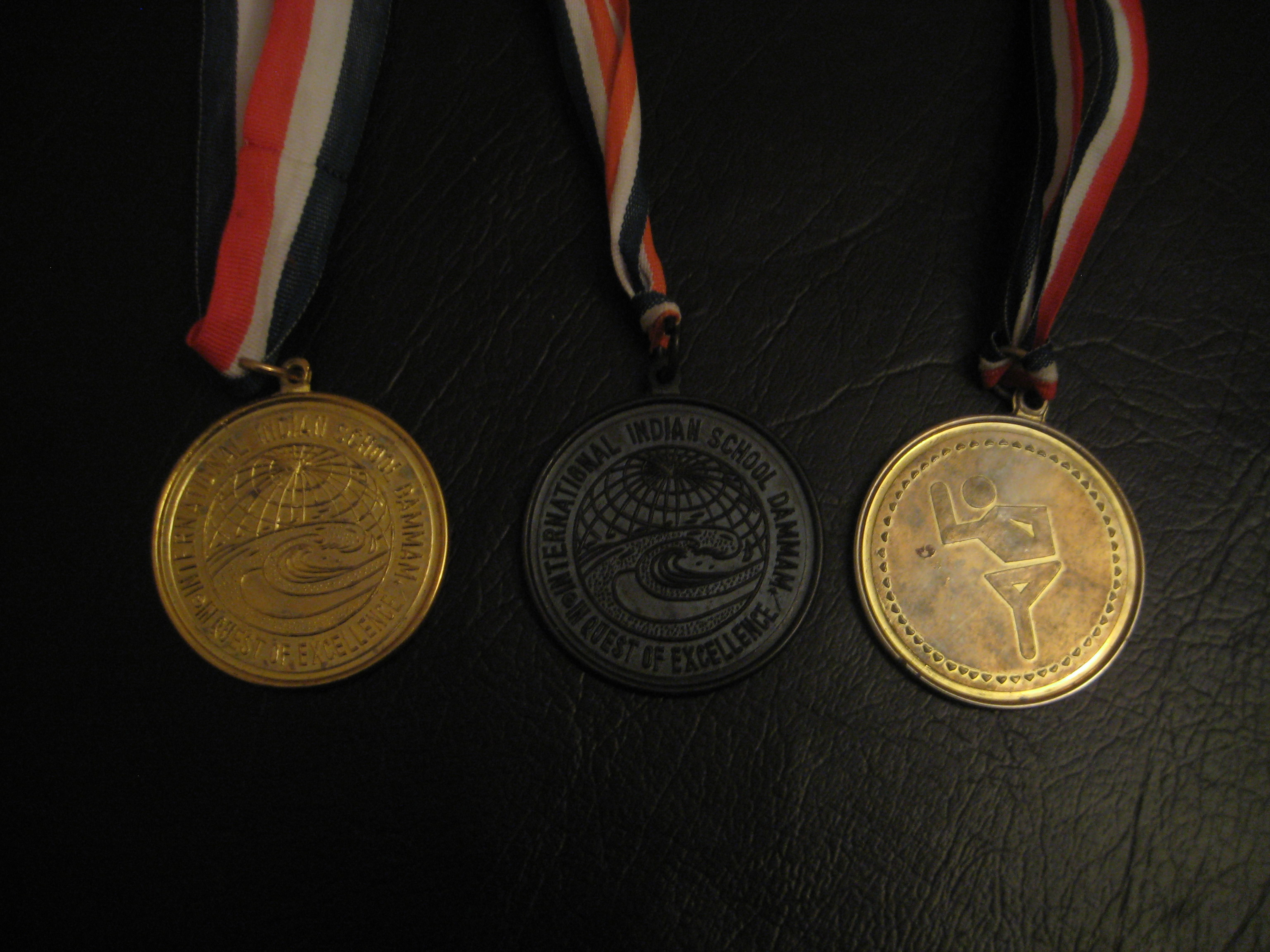 Medals